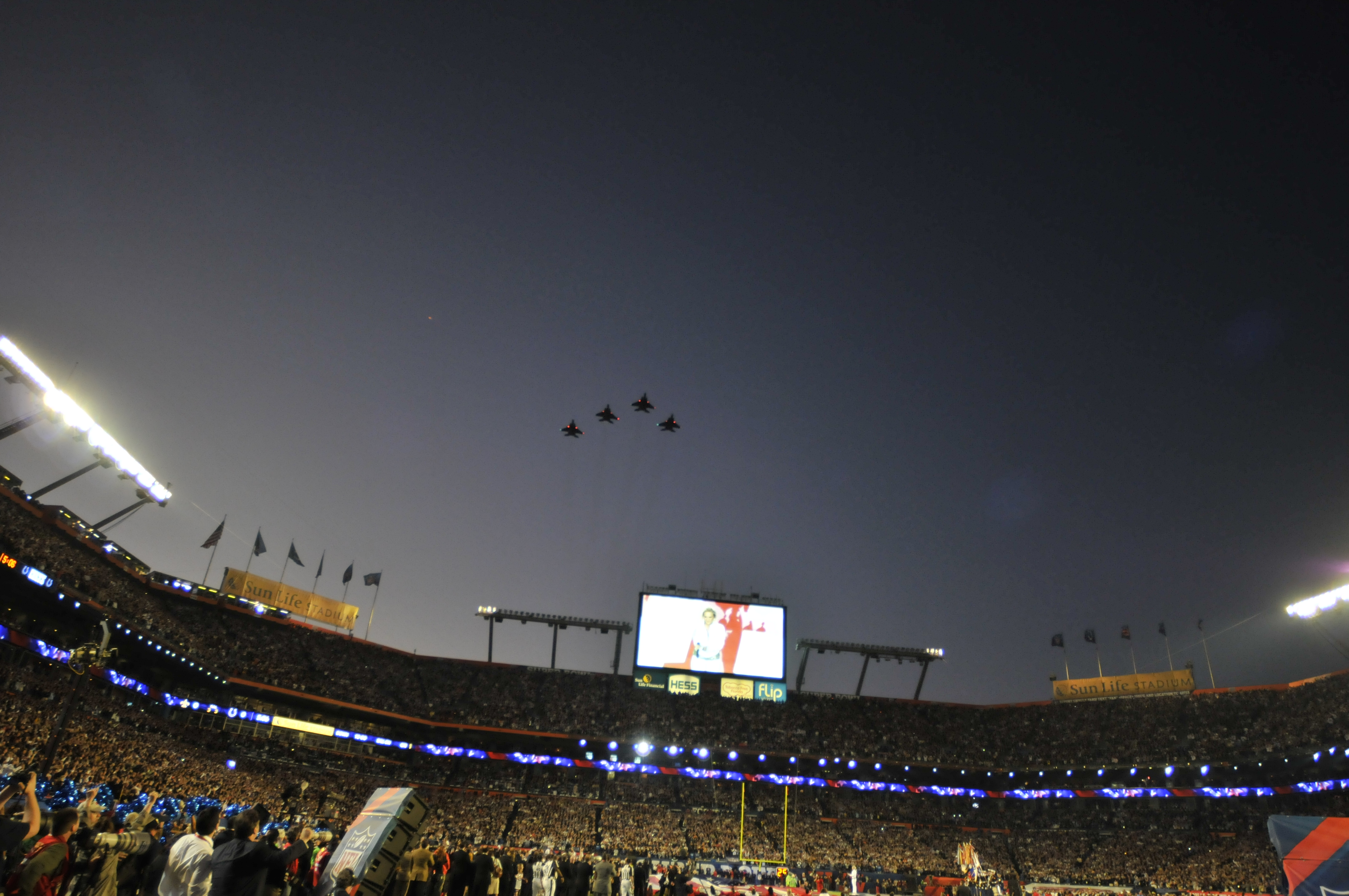 Four F-15 Eagle fighter aircraft from the 125th Fighter Wing (FW), Florida Air National Guard perform a flyover as part of Super Bowl XLIV pregame activities at Sun Life Stadium in Miami, Fla., Feb. 7, 2010. Lt. Col. Michael Birkeland, commander of Detachment 1, 125th FW, said this marks the first time an Air National Guard unit has performed a flyover at a Super Bowl game. The pilots performing the flyover are 125th FW Commander Col. Bob Branyon, 125th FW Chief of Standards and Evaluation Lt. Col. John Black, 125th FW Operations Group Commander Col. Bill Bair and 125th Fighter Squadron Commander Lt. Col. Mike Rouse.